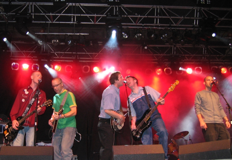 The band Jimmy George at the Tulip Festival in Ottawa. Photo taken by James R. Skinner on May 18th, 2005